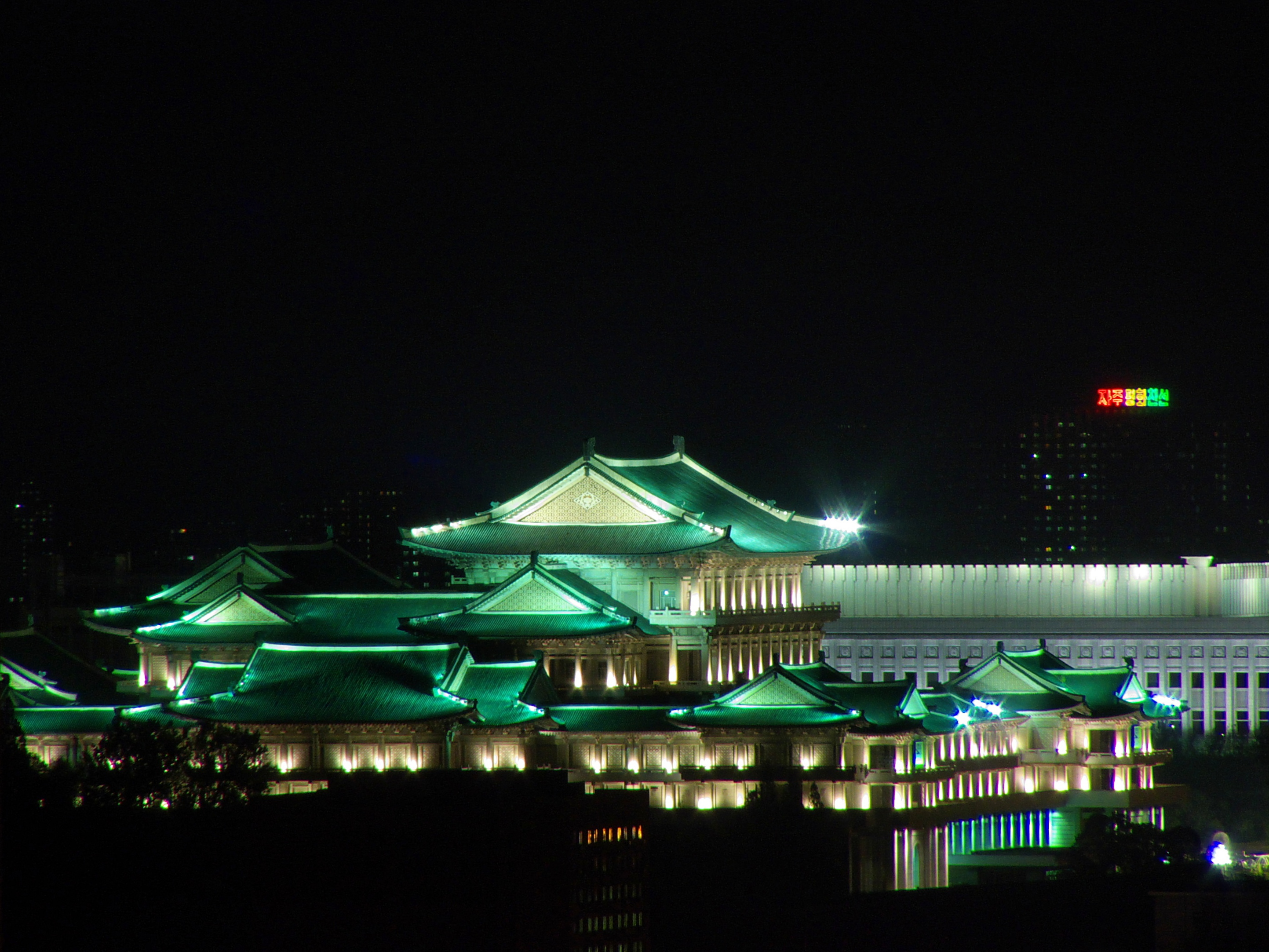 The Grand People's Study House is easily the most pleasant looking building in Pyongyang, build in a classical Korean style (Pyongyang is otherwise a sprawling Brutalist nightmare). The complex functions as a library and study hall.